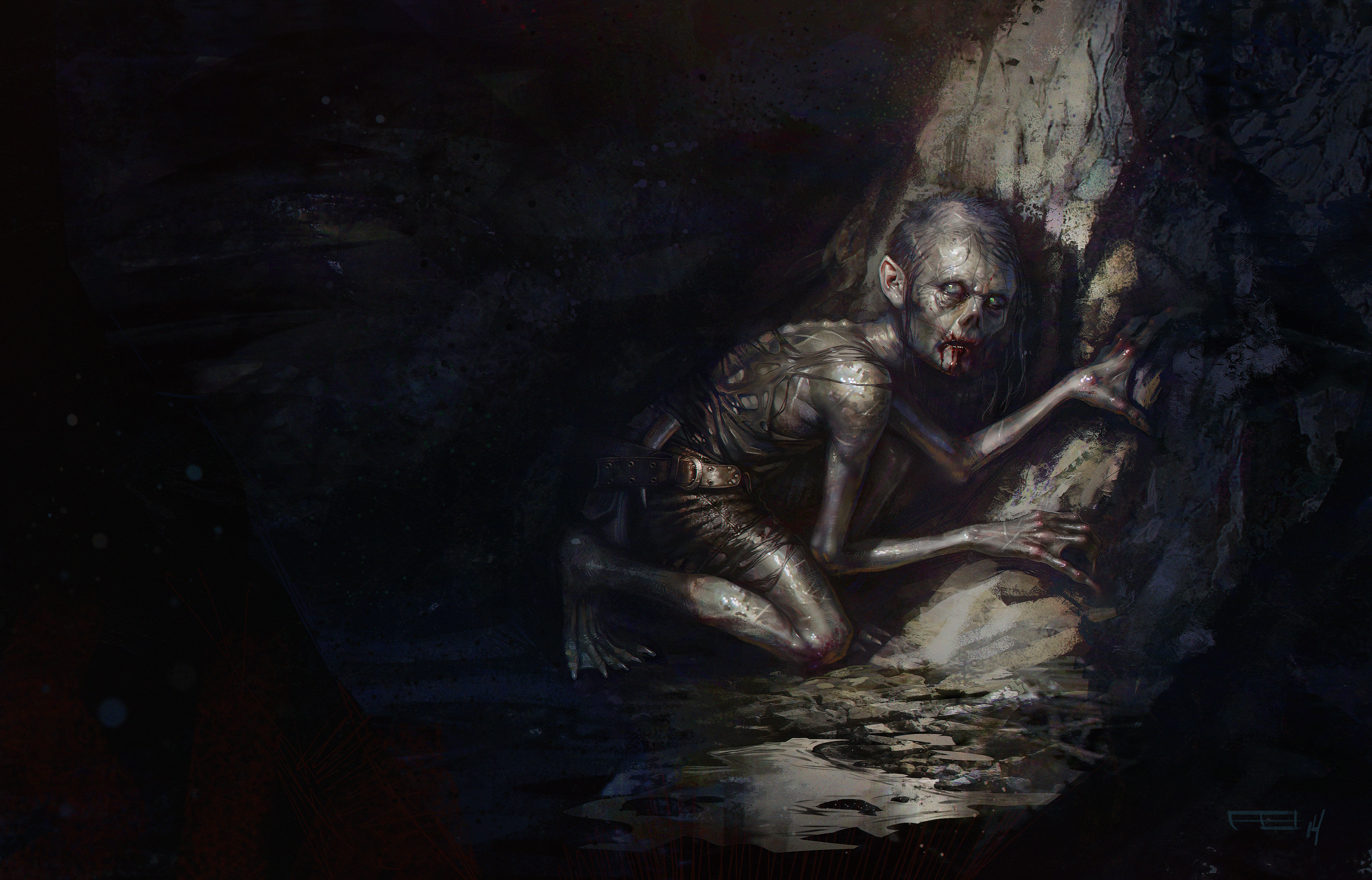 Gollum's journey commences by Frédéric Bennett